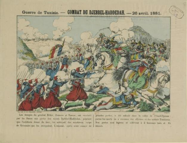 Bataille de Djebel Haddeda, 26 avril 1881, Tunisie